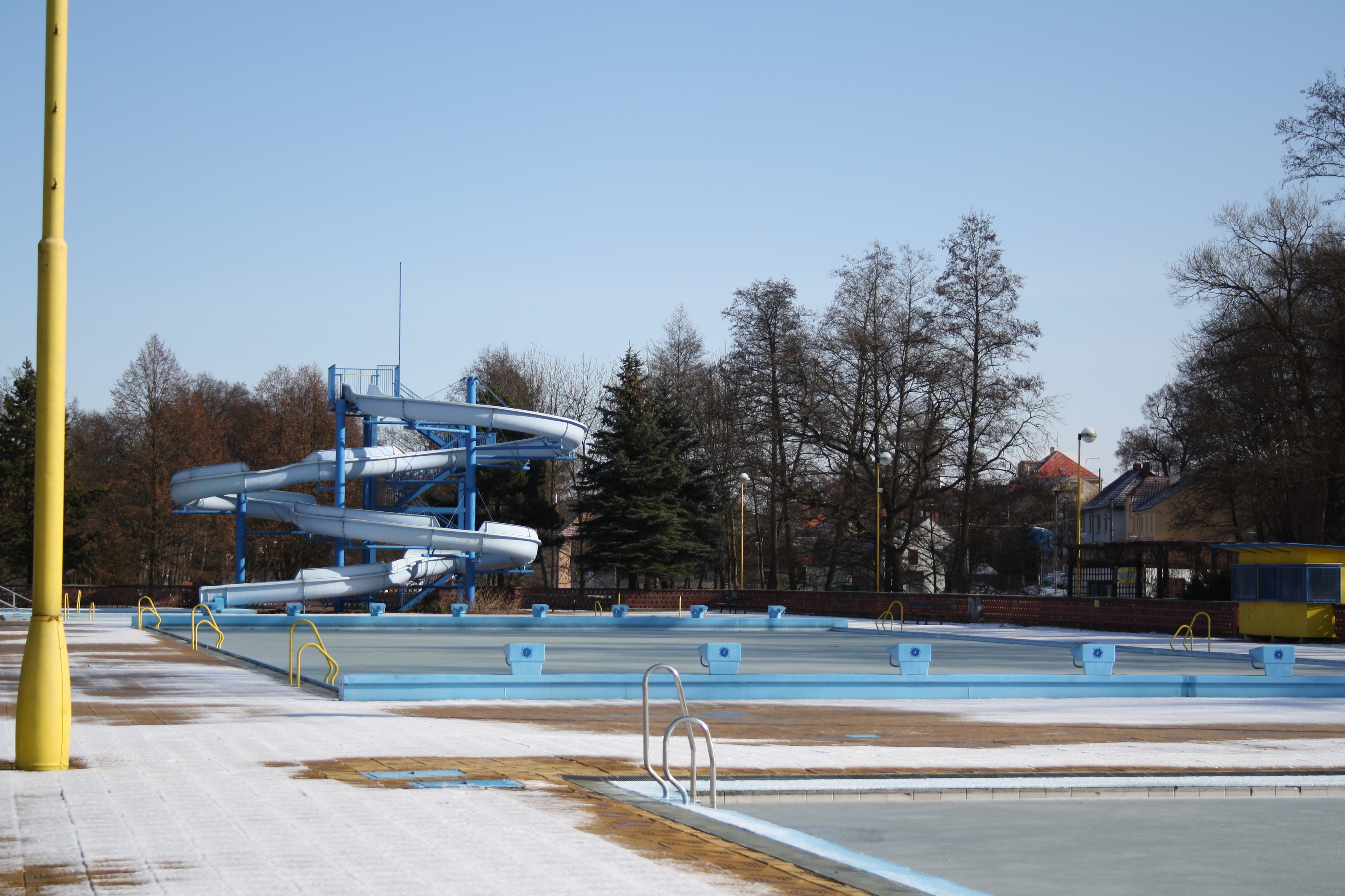 Polanka pools pools.